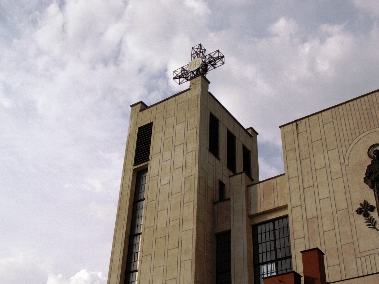 Roman Catholic Church in Mińsk Mazowiecki, church of Saint Anthony.